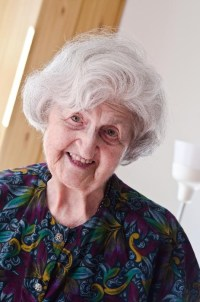 Marie Magdalena Horňanová-Jodasová (* 1920), the oldest active Czech woman writer, author of testimony about the Jewish Holocaust.